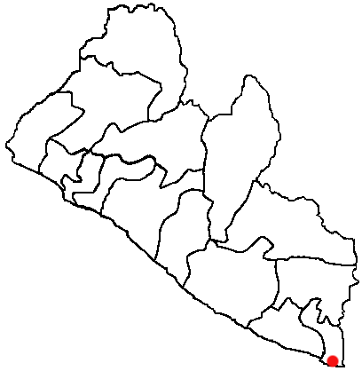 Harper, Liberia Location Map; created with the GIMP. Made by User:Acntx.